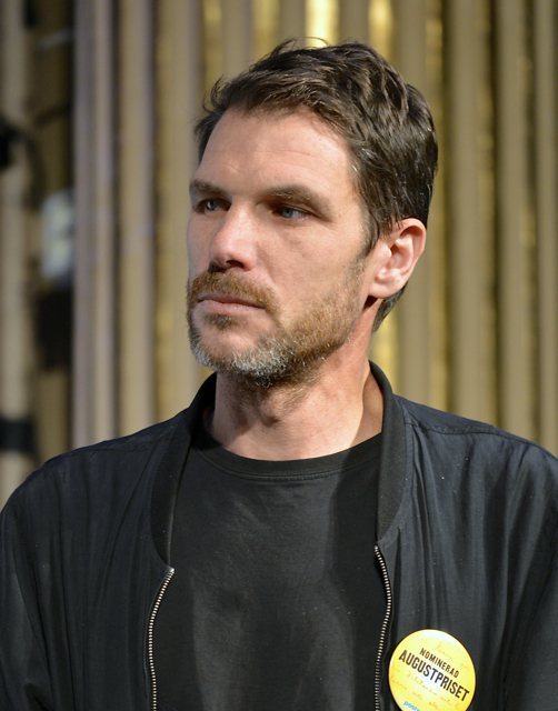 Nominated for the August Prize 2014.